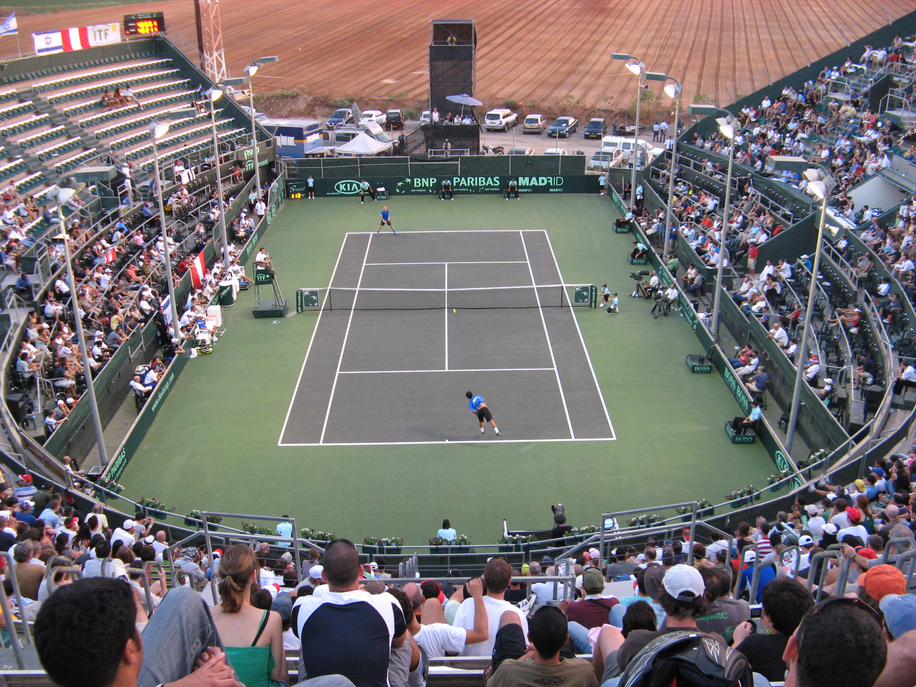 Israeli Tennis 'Canada' Stadium in Ramat HaSharon - a picture from gate 4